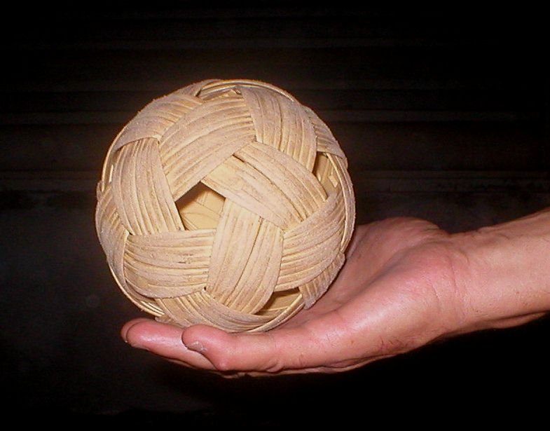 The ball used for Sepak Takraw (Kick-Volley in Asia)